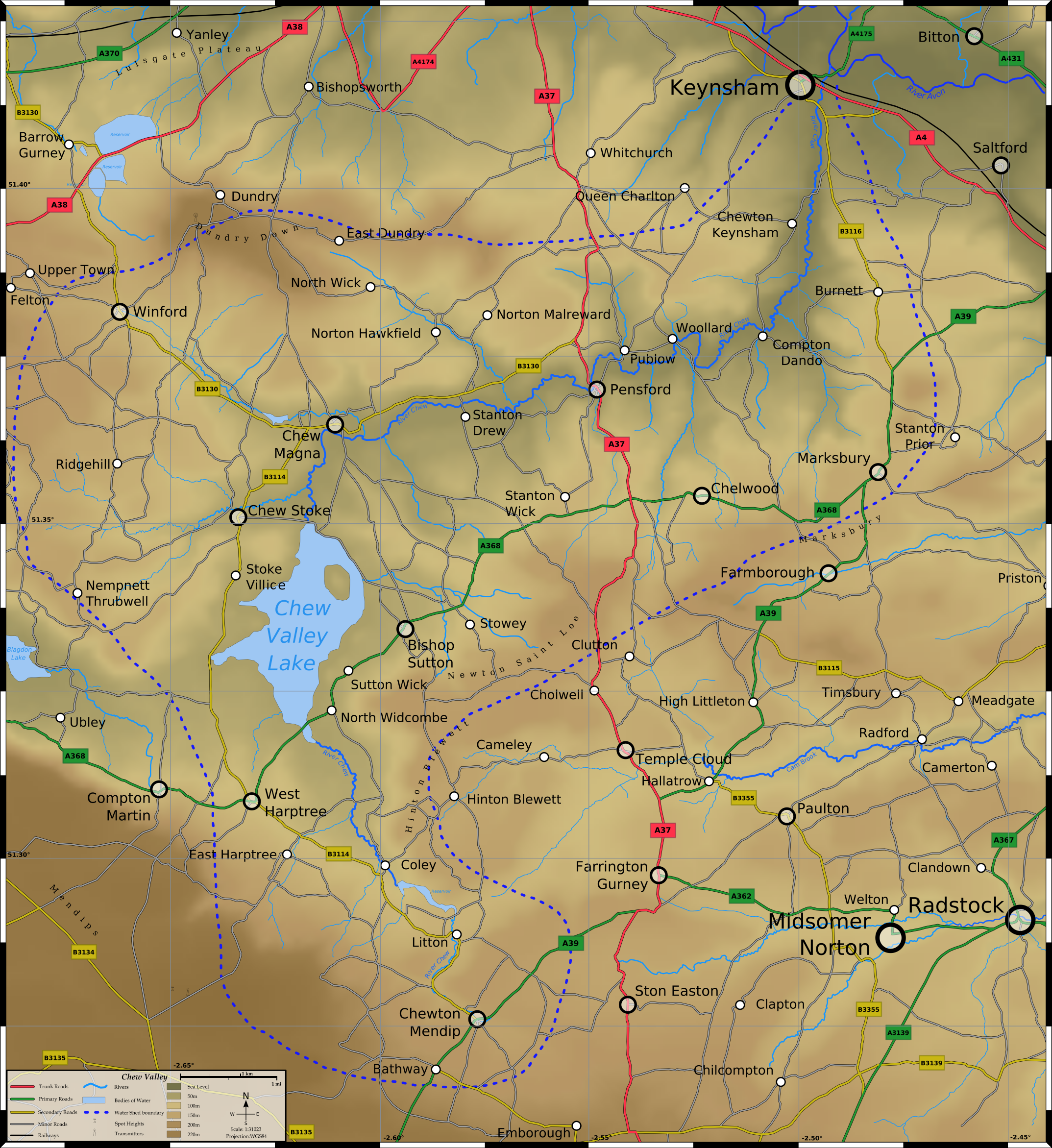 Map of Chew Valley. Topographical data derived from NASA SRTM, PD Roads, Rivers and location data derived from 1890 OS mapping, PD by Berne convention.